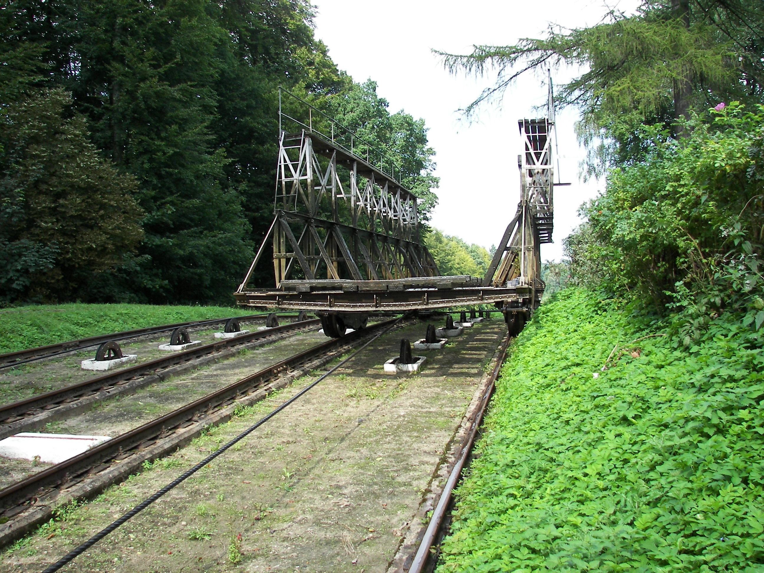 Trolley at Elbląg Canal, Poland